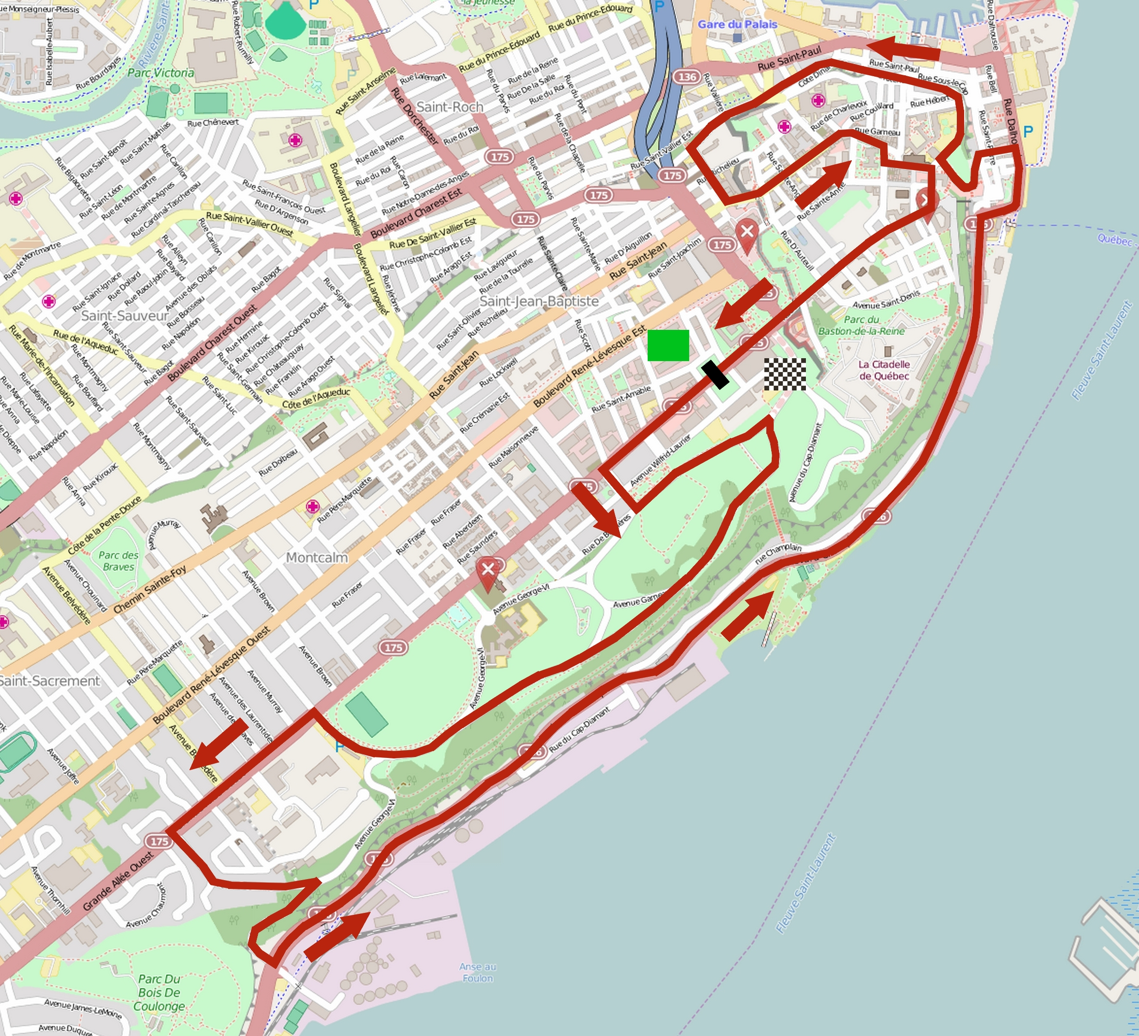 Parcours du Grand Prix cycliste de Québec 2015. This map may be incomplete, and may contain errors. Don't rely solely on it for navigation.